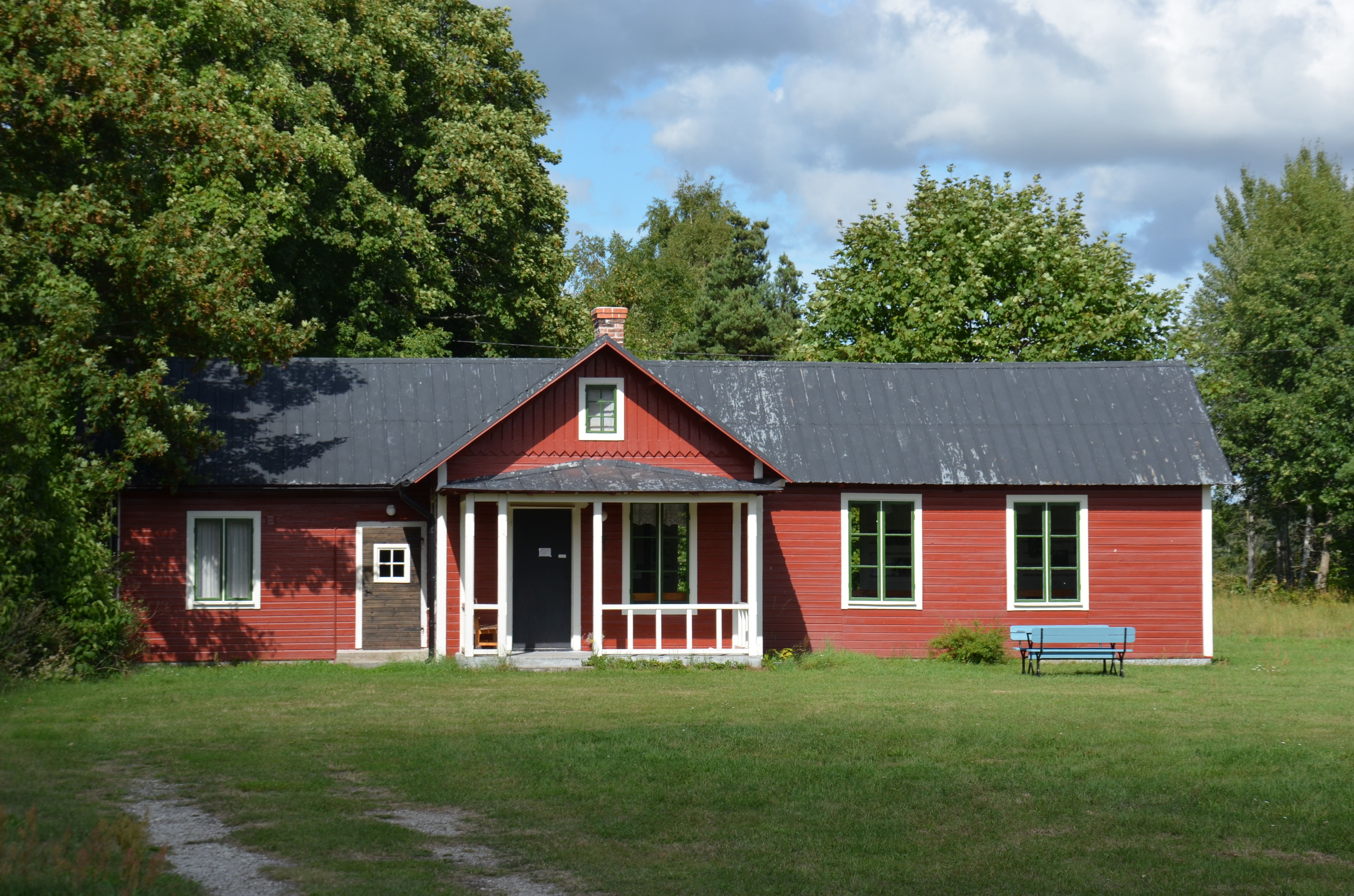 Tidigare Sanda stationshus, nu Lasse Gullinmuseet